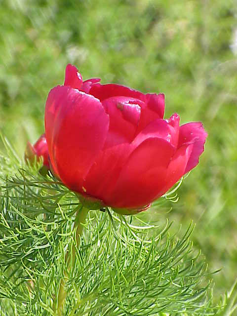 Species: Paeonia tenuifolia Family: Paeoniaceae Image No. 3